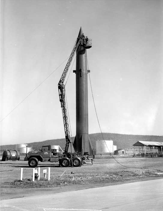 Redstone rocket photograph without description.